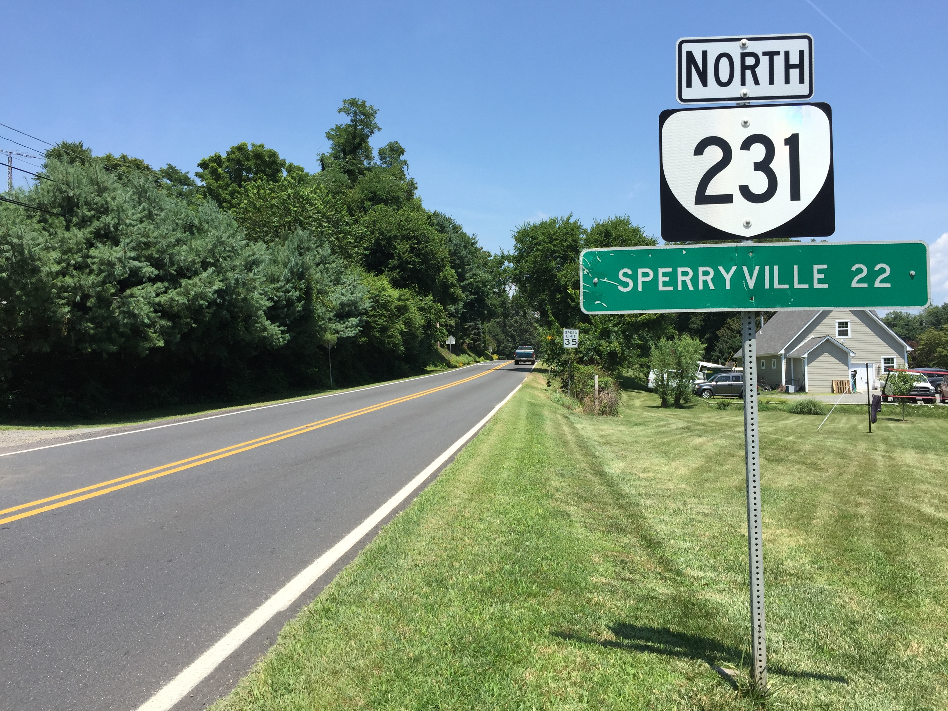 View north along Virginia State Route 231 (Blue Ridge Turnpike) just north of U.S. Route 29 Business (Main Street) just north of Madison, Madison County, Virginia